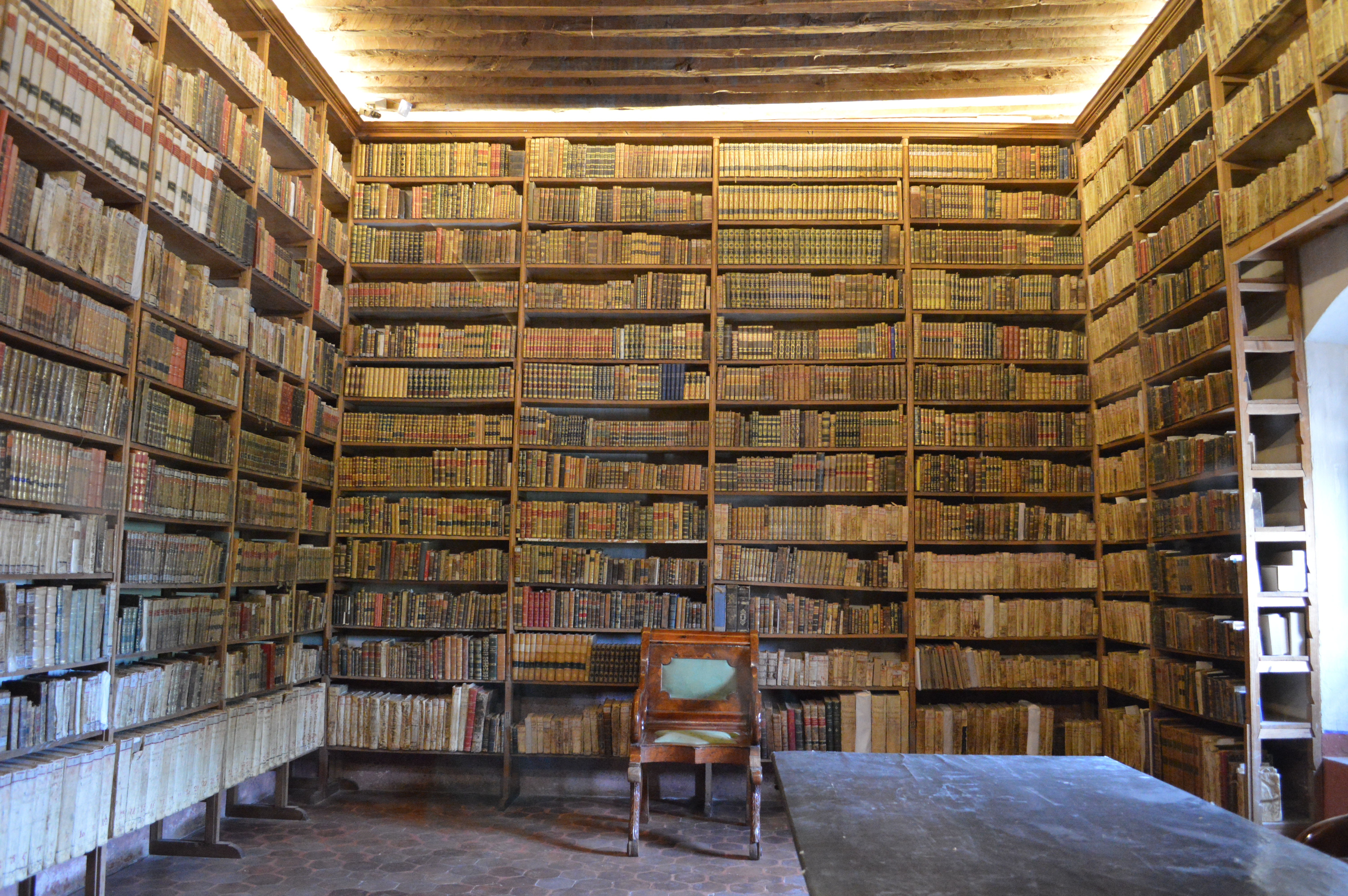 View of the former monastery library at the Guadalupe Museum in Guadalupe, Zacatecas